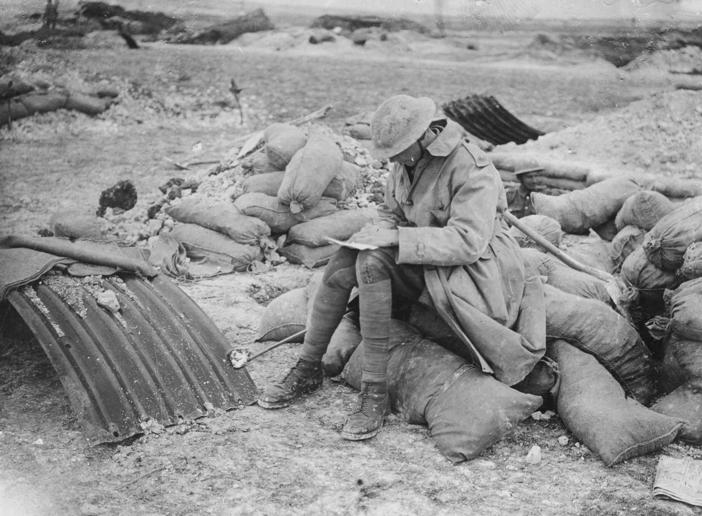 A British officer writing home from the Western Front during World War One. Sitting on some sandbags and surrounded by scattered debris, this officer is writing a letter home. He is wearing puttees (protective leggings) over his lower legs. Mail to and from home was strictly censored during the conflict. Soldiers were not allowed to mention the name of wherever they were located. As many of the soldiers were illiterate, officers also had to read out and transcribe letters for the men. It is interesting to note that although the establishment was keen to suppress news and opinions about the war, the press did like to give the front line soldiers a voice. [Original reads: 'OFFICIAL PHOTOGRAPH TAKEN ON THE BRITISH WESTERN FRONT. An officer writing home.']